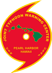 The current logo of the Joint Typhoon Warning Center.